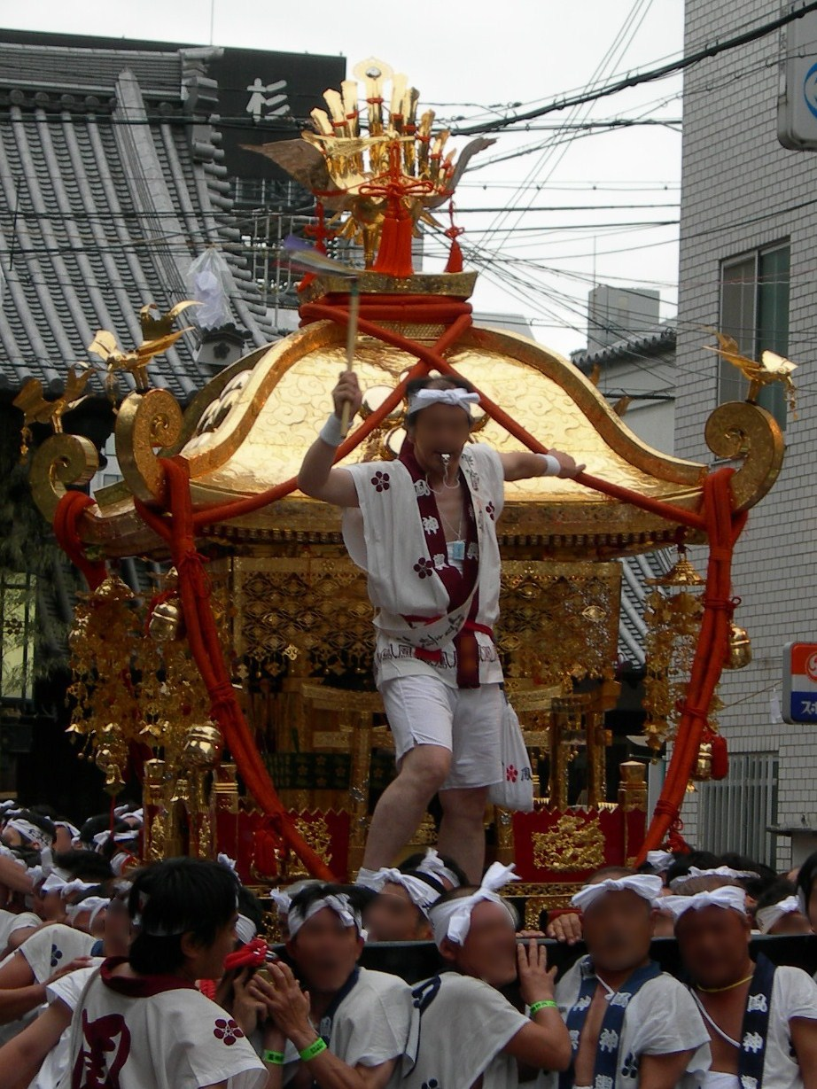 "Ōtori-Mikoshi" of "Okatogyo" of Tenjin-Matsuri, Osaka. Pre-image processing.